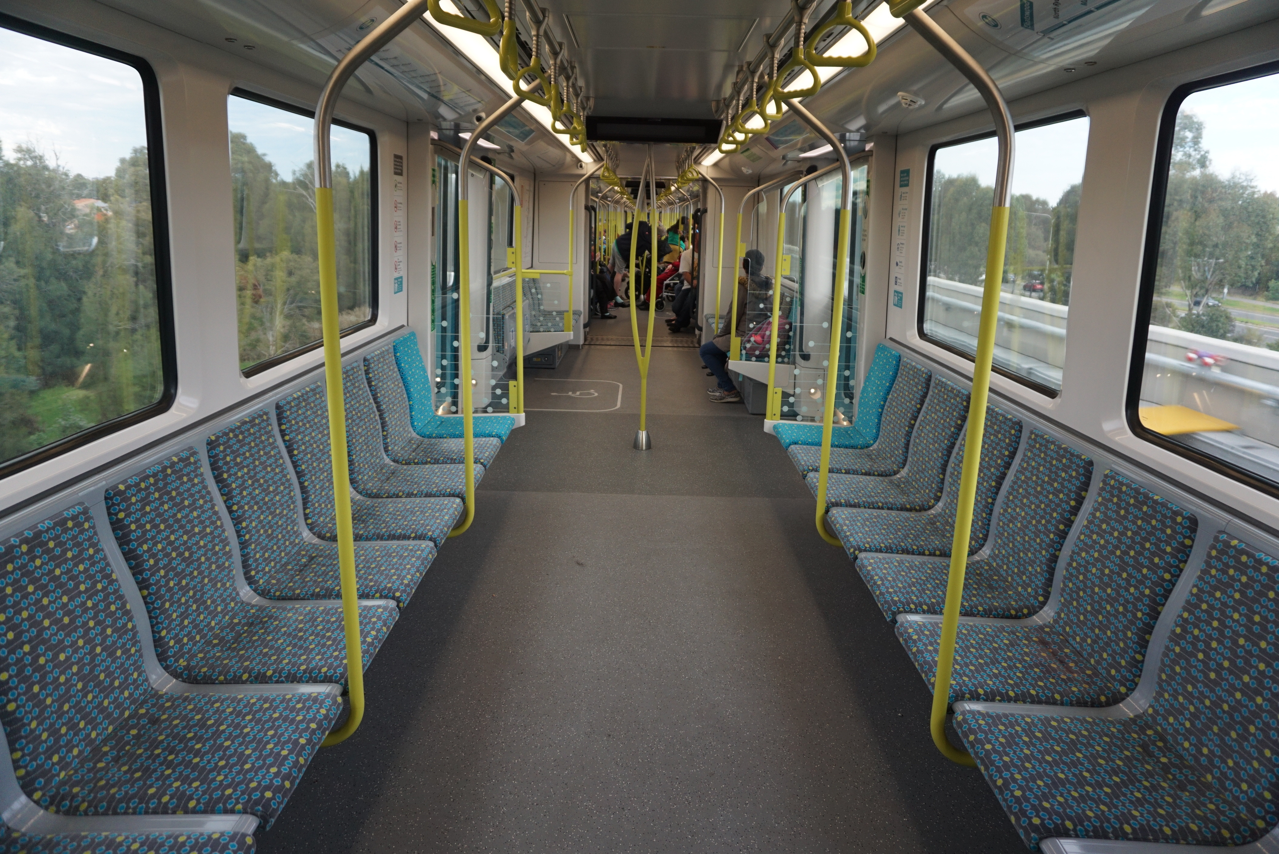 Sydney Metro